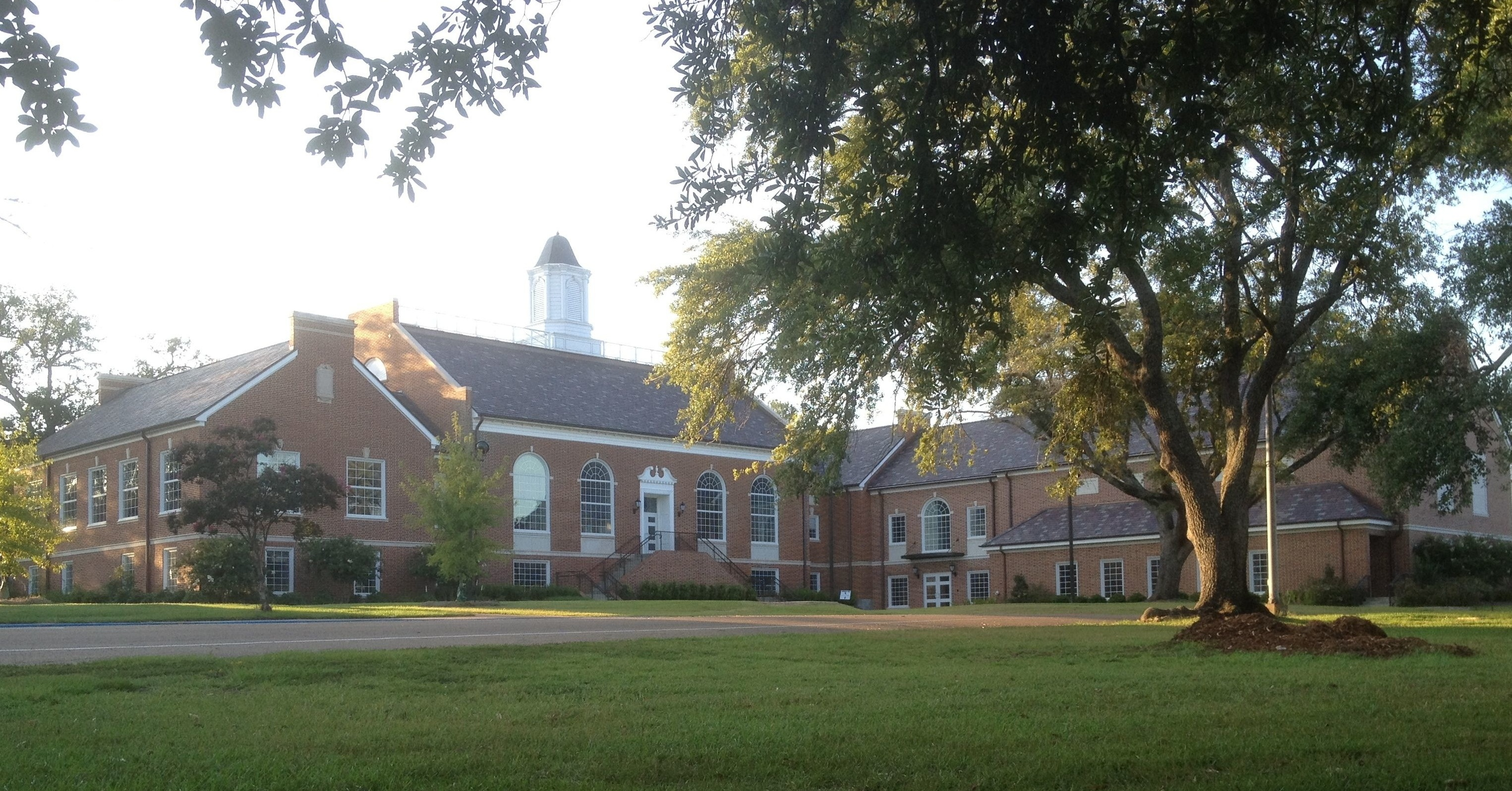 Photo of University Hall on Louisiana Tech campus